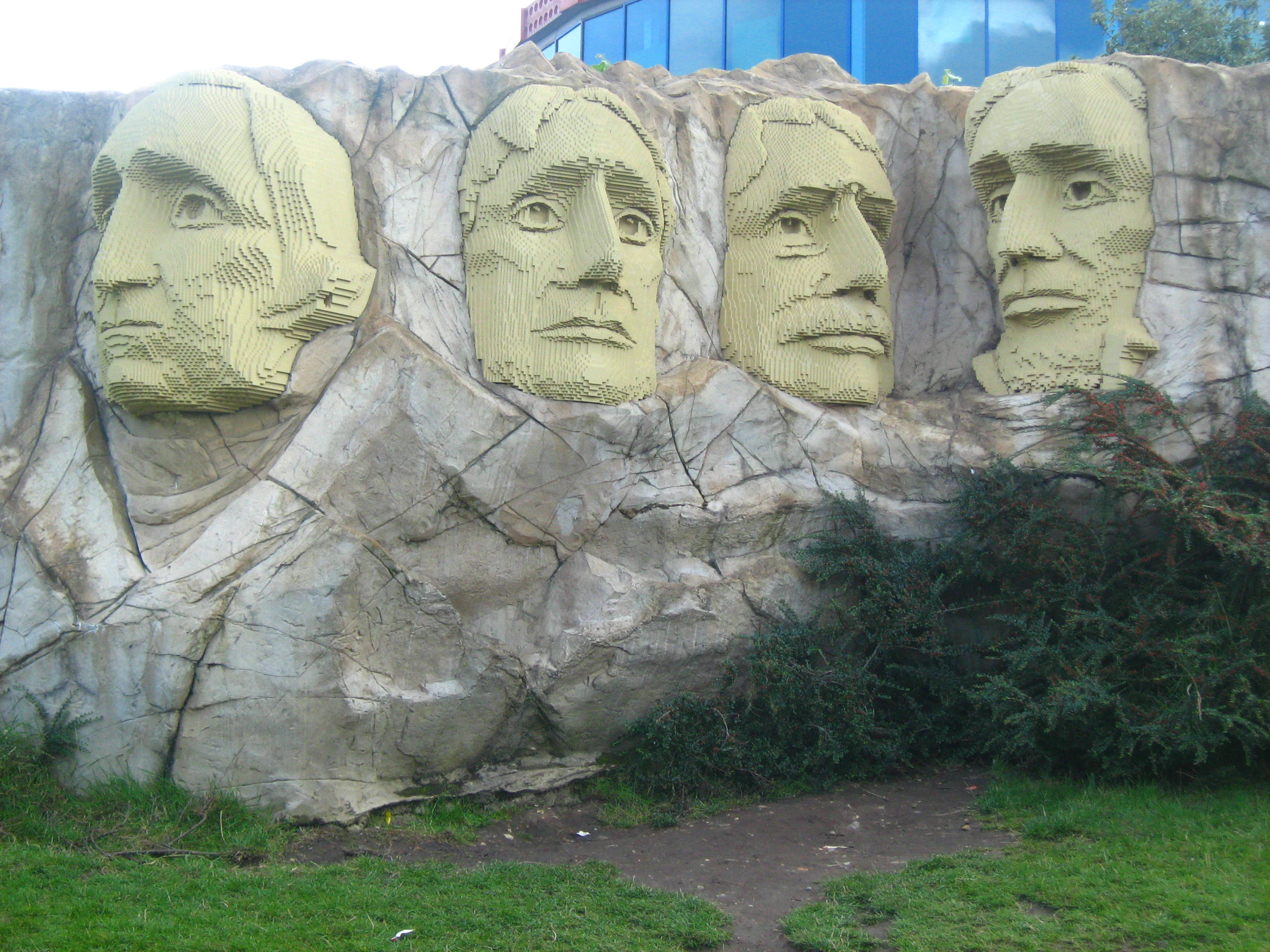 Model of Mount Rushmore (inset George Washington, Thomas Jefferson, Theodore Roosevelt and Abraham Lincoln) in Miniland, Legoland Windsor